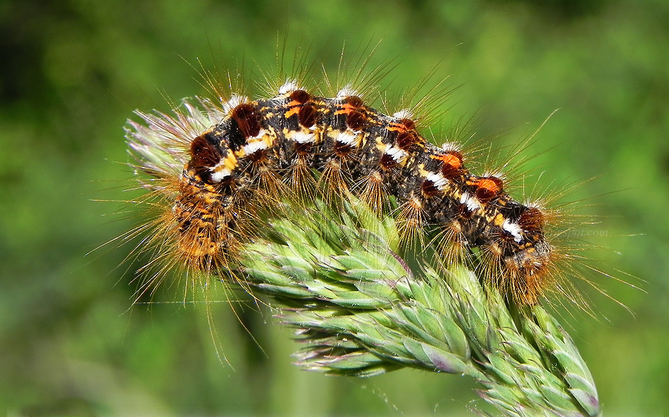 Brown-tail moth caterpillar Chenille de Cul-brun